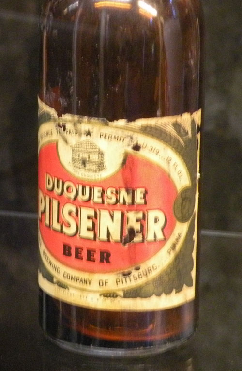 Picture of an old bottle of the Duquesne Brewing Company's Duquesne Pilsener Beer that was on display at the Fort Pitt Blockhouse museum on April 10, 2010. Though the trademark of the brand is supposed to depict Fort Duquesne, it actually features a depiction of the Blockhouse that was part of Fort Pitt. Underneath the depiction is the incorrect description, "Fort Duquesne". I know this photograph isn't very clear, it was taken through a glass display case inside the slightly dark interior of the blockhouse, but a slightly clearer view of the logo can be seen here. This bottle most likely dates back to sometime between 1890 and 1911, because Pittsburgh is spelled "Pittsburg" on the label, and the city was only officially spelled that way between those years.[1]